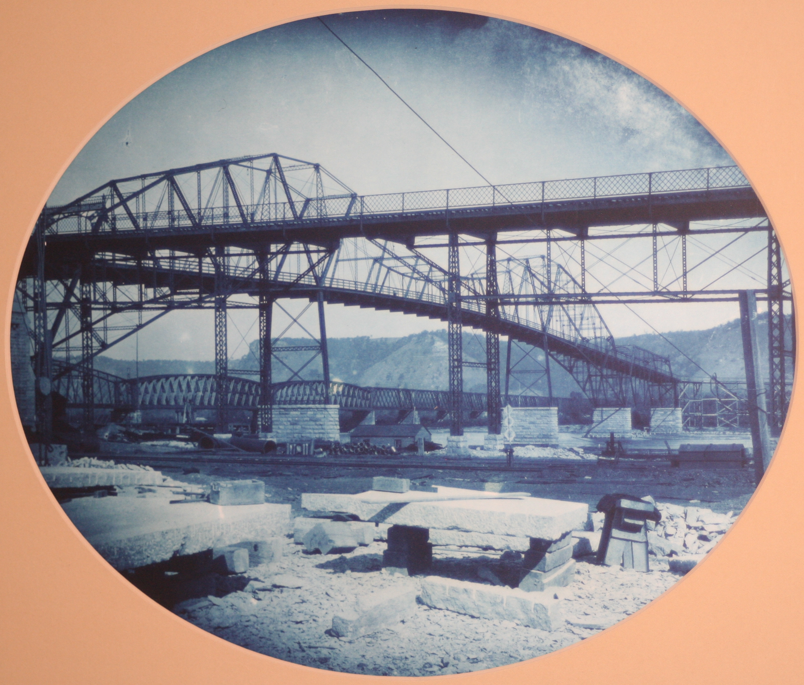 "Wagon Bridge, Winona, Minnesota 1892" at Henry Peter Bosse "Views on the Mississippi" exhibition, Ramsey County Historical Society, Landmark Center, Saint Paul, Minnesota. Photo of a modern reproduction of a Bosse photo from a volume found by the U.S. Corps of Engineers aboard the Dredge William A. Thompson.